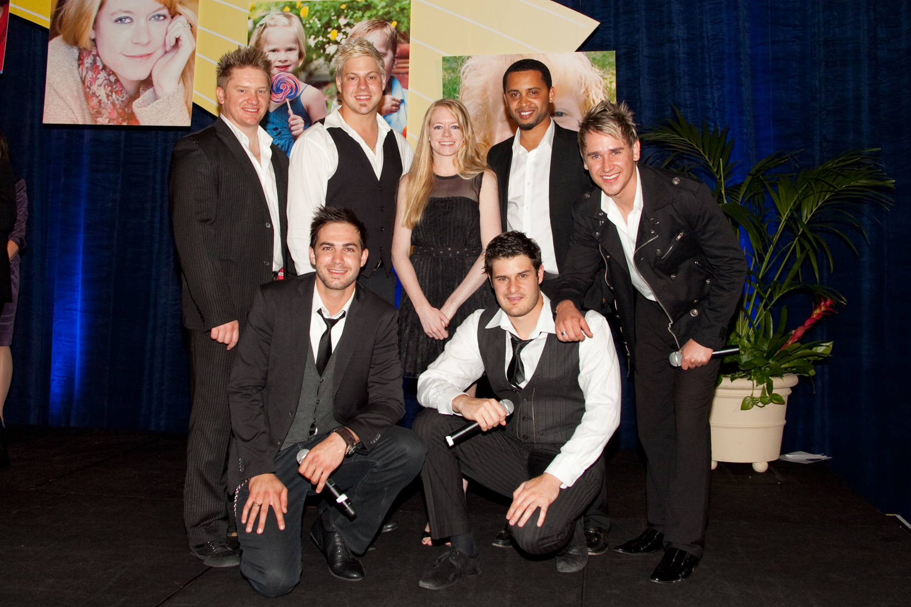 Overtone with Natalie Stack after a performance at the 2011 Cystinosis Research Foundation fundraiser in Long Beach California.